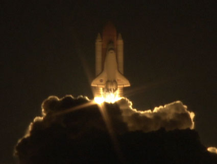 Space Shuttle Endeavour lifts off during STS-123